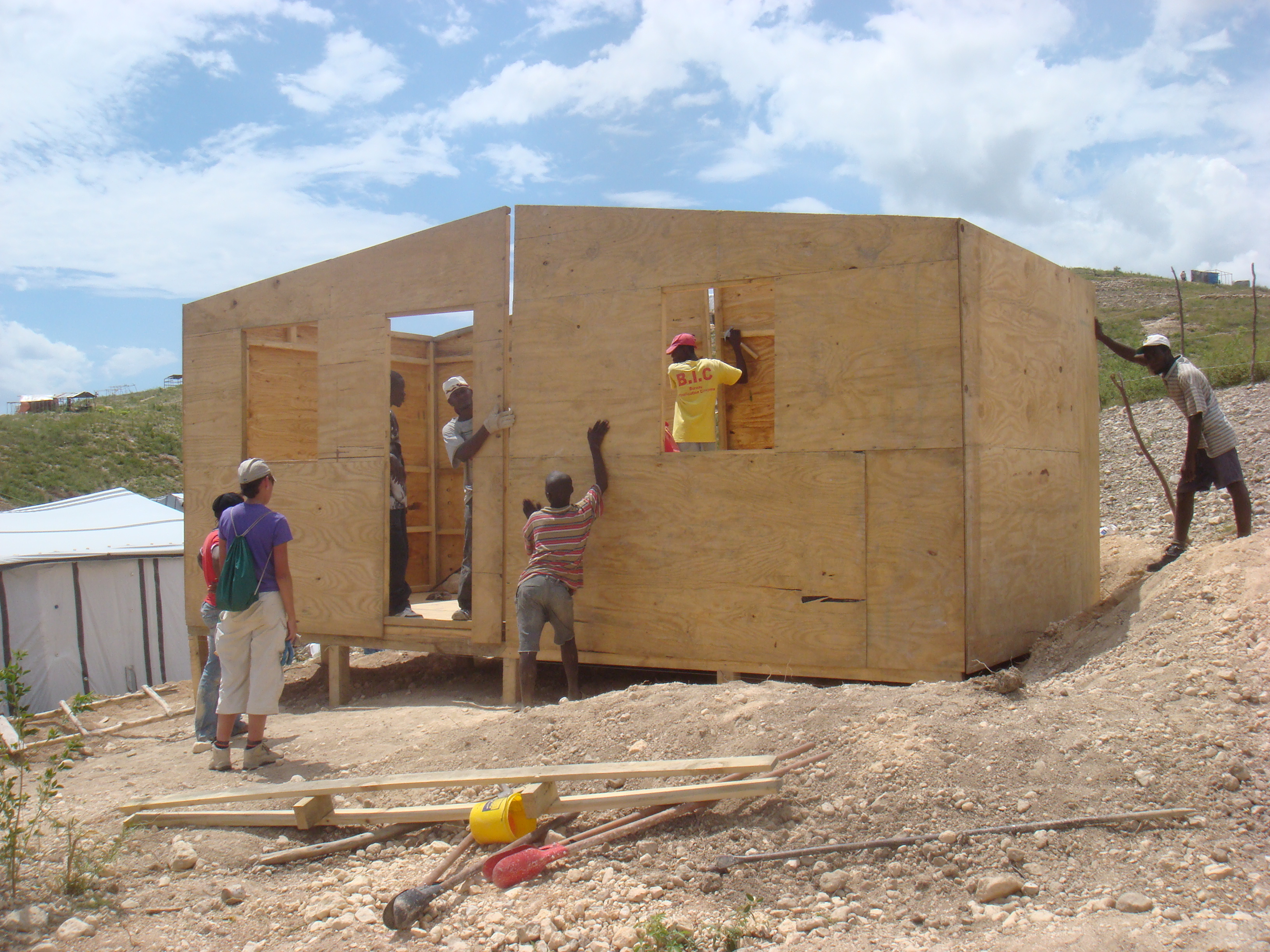 House built by Un echo para mi pais volunteers